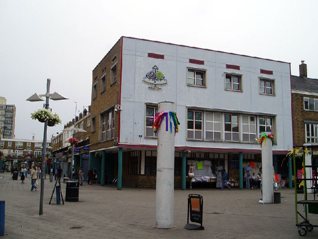 Chrisp Street Market, Poplar. The Chrisp Street retail centre is on the Lansbury Estate, which was part of the 1951 Festival of Britain and was the first specially designed pedestrianised shopping centre in the UK.